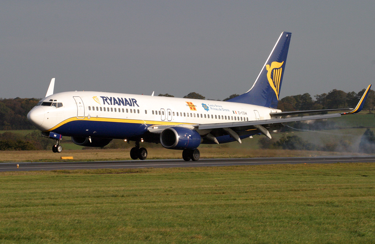 A Ryan Air Boeing 737 in 2006. The aircraft was later later sold to Ethiopian Airlines and re-registered as ET-ANB. On January 25 2010, this aircraft crashed near Lebanon as Ethiopian Airlines Flight 409, killing all 90 people on board.